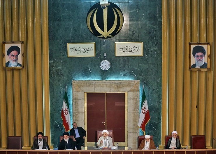 Assembly of Experts leadership in 2013